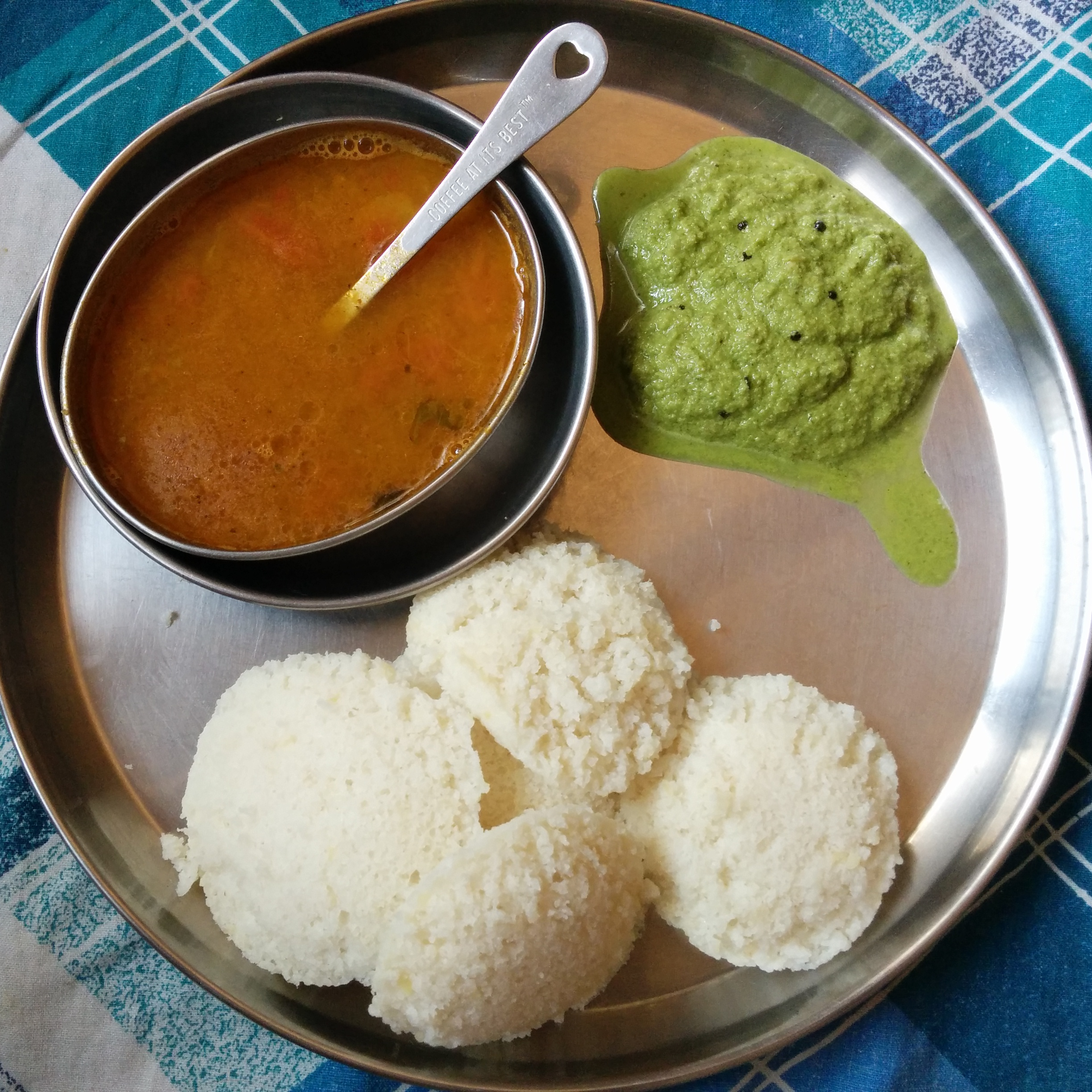 Home made Idli Sambhar with Chutney.